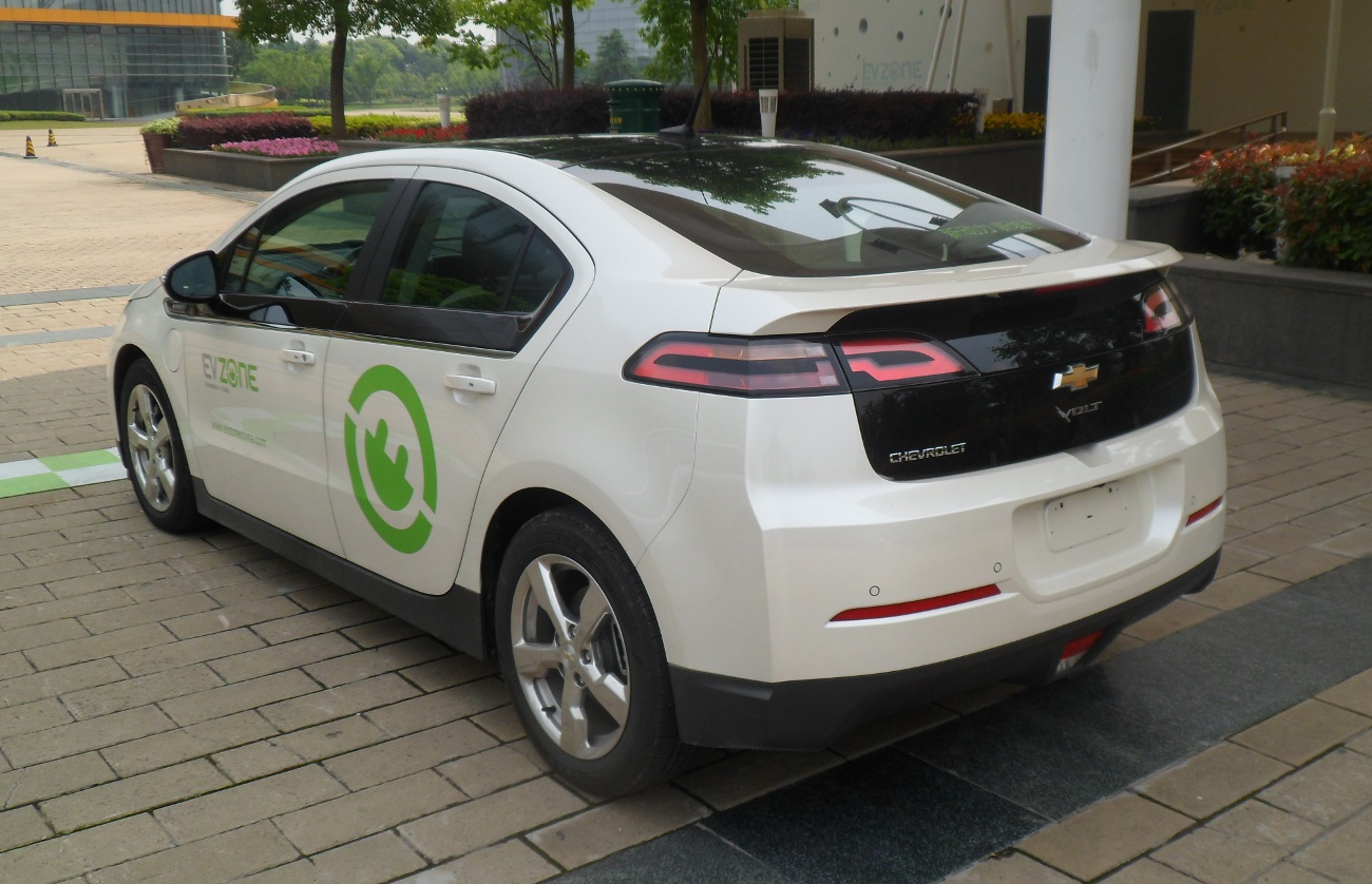 Chevrolet Volt photographed in Anting, Shanghai municipality, China.